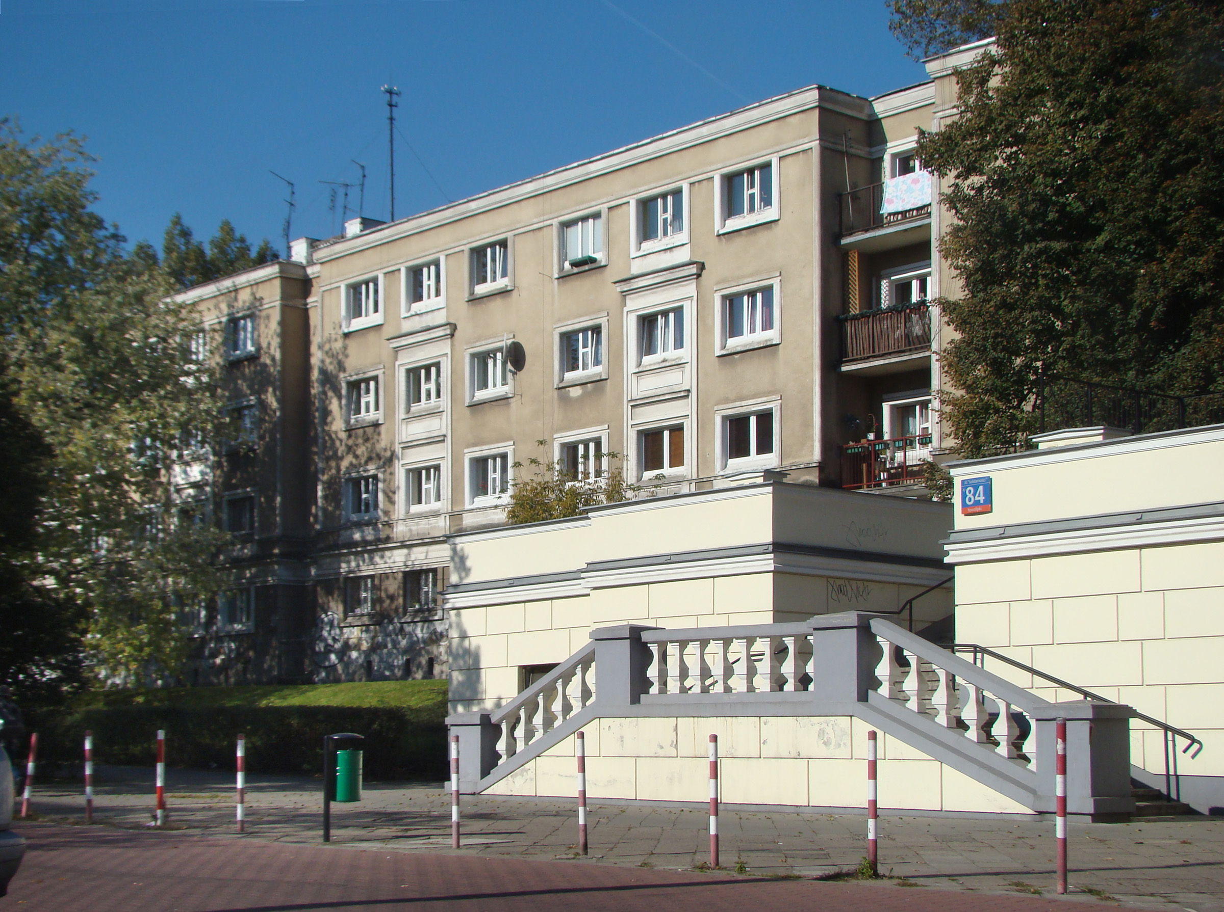 Open-air stairs, Aleja Solidarności 84, Warsaw